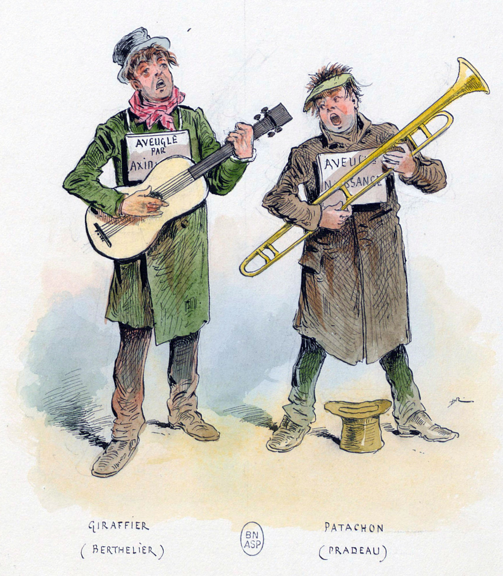 Drawing with watercolor of the two characters Giraffier (Jean-François Berthelier). playing a mandolin, and Patachon (Étienne Pradeau), playing a trombone, in Jacques Offenbach's 1-act operetta Les deux aveugles, as first performed in 1855